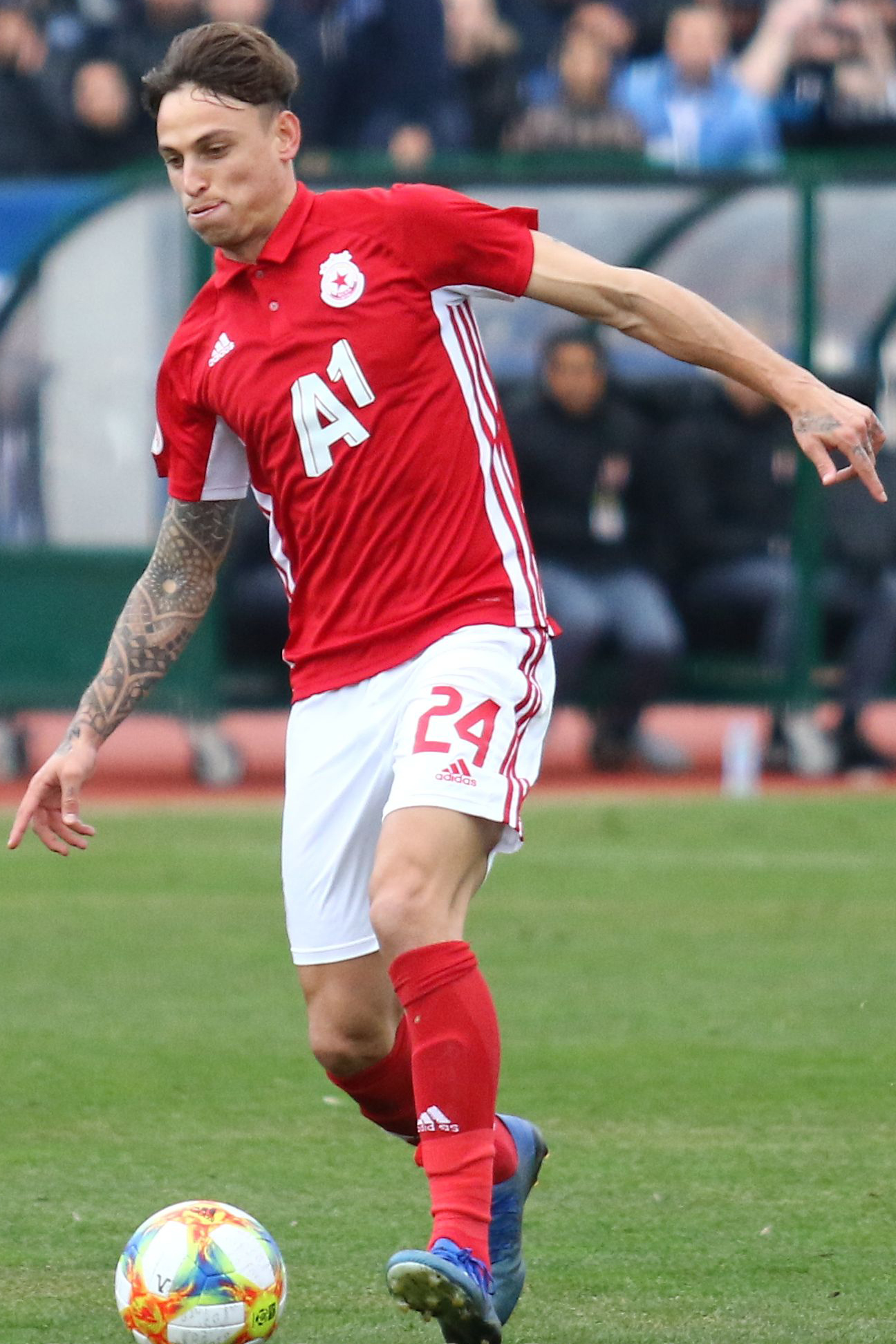 Stefano "Teto" Beltrame (born 8 February 1993)- Italian professional footballer who plays as an attacking midfielder for Bulgarian club CSKA Sofia.